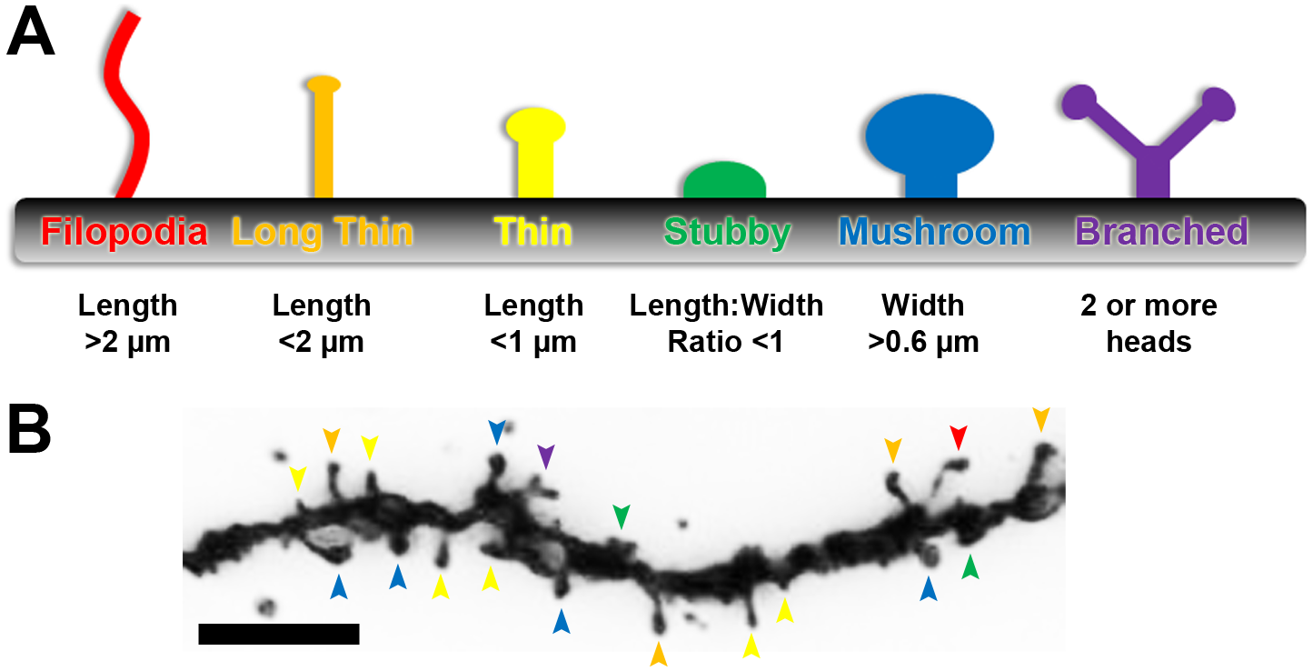 Geometric characteristics of dendritic spines allow for objective identification. (A) Common dendritic spines types found in the cortex. Spine maturity progresses (from left to right) from long, thin filopodia type structures (red) to wide-headed mushroom spines (blue) and the occasional branched spine (purple). Geometric characteristics of spines, listed below each type, are incorporated into the rapid spine analysis method. (B) Golgi-cox stained secondary dendritic branch of a Layer II/III pyramidal neuron in mouse primary visual cortex. Different spine types are indicated by arrowheads, color-coded to match A. Scale bar, 5 µm.